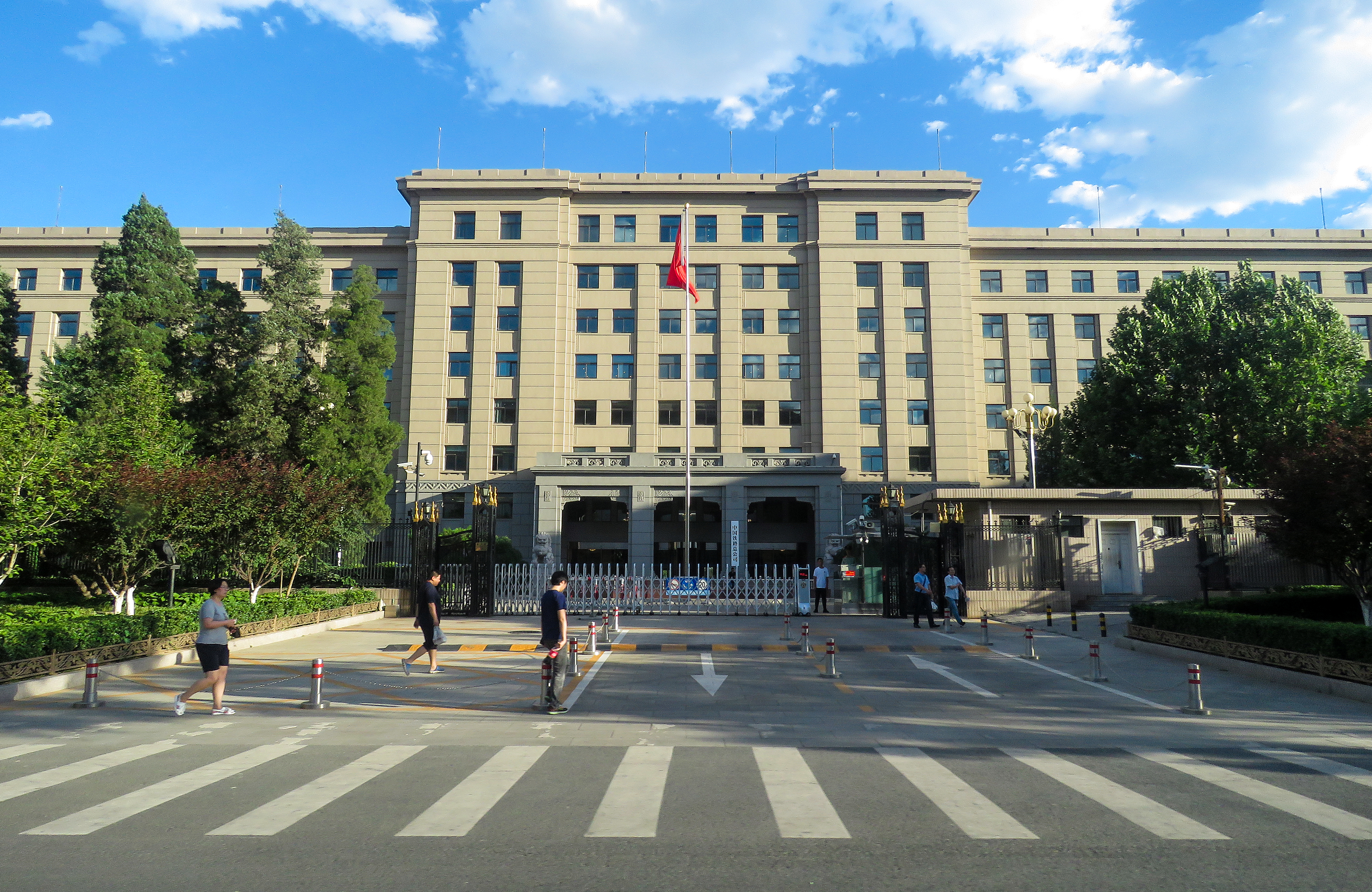 In these days around midsummer, the sunlight is cast on the north before sunset.